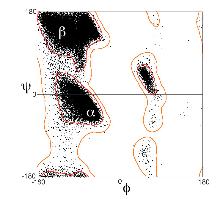 φ,ψ plot ("Ramachandran diagram") of the torsion angles that specify protein backbone conformation, with the alpha-helix and beta-strand regions labeled. Data as in Lovell et al. 2003 Proteins 50:437, showing about 100,000 data points for general amino-acid types (not Gly, Pro, or pre-Pro) in high-resolution crystal structures.